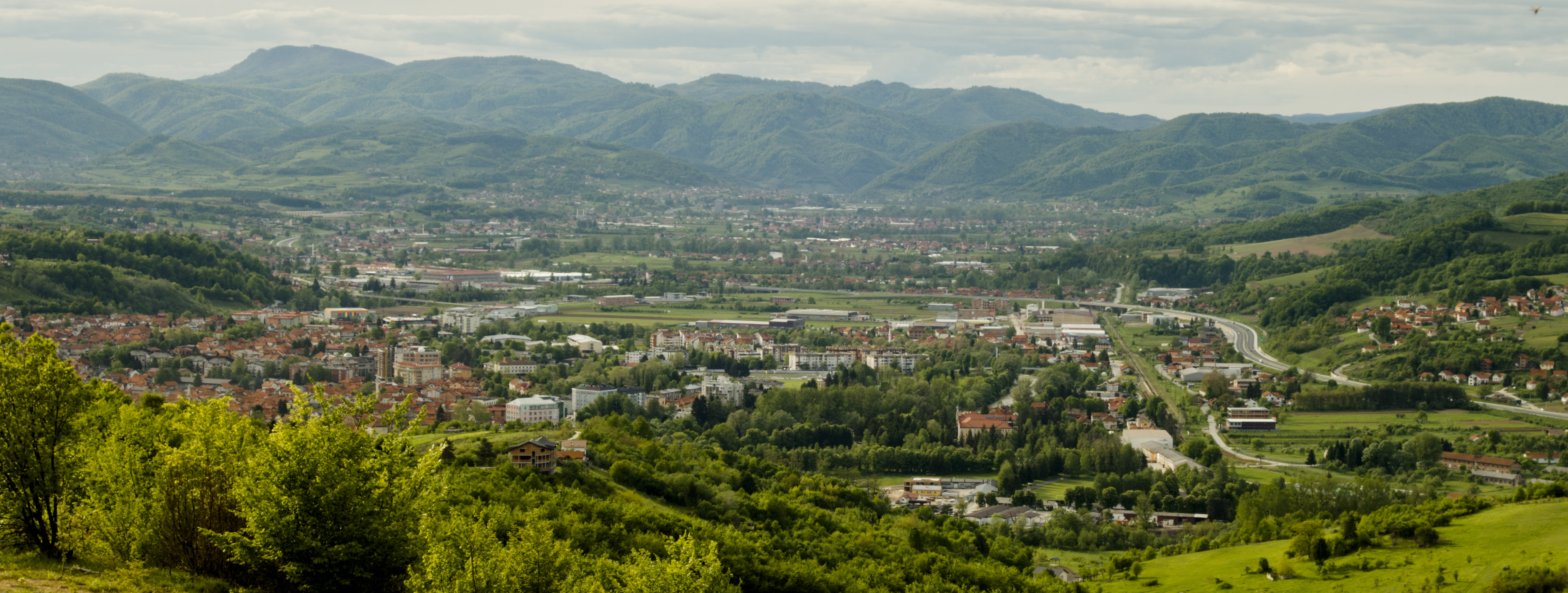 View from Vrela. Part of town is seen, and Visoko field or basin as it's known in distance. Left, not seen, is Visočica hill